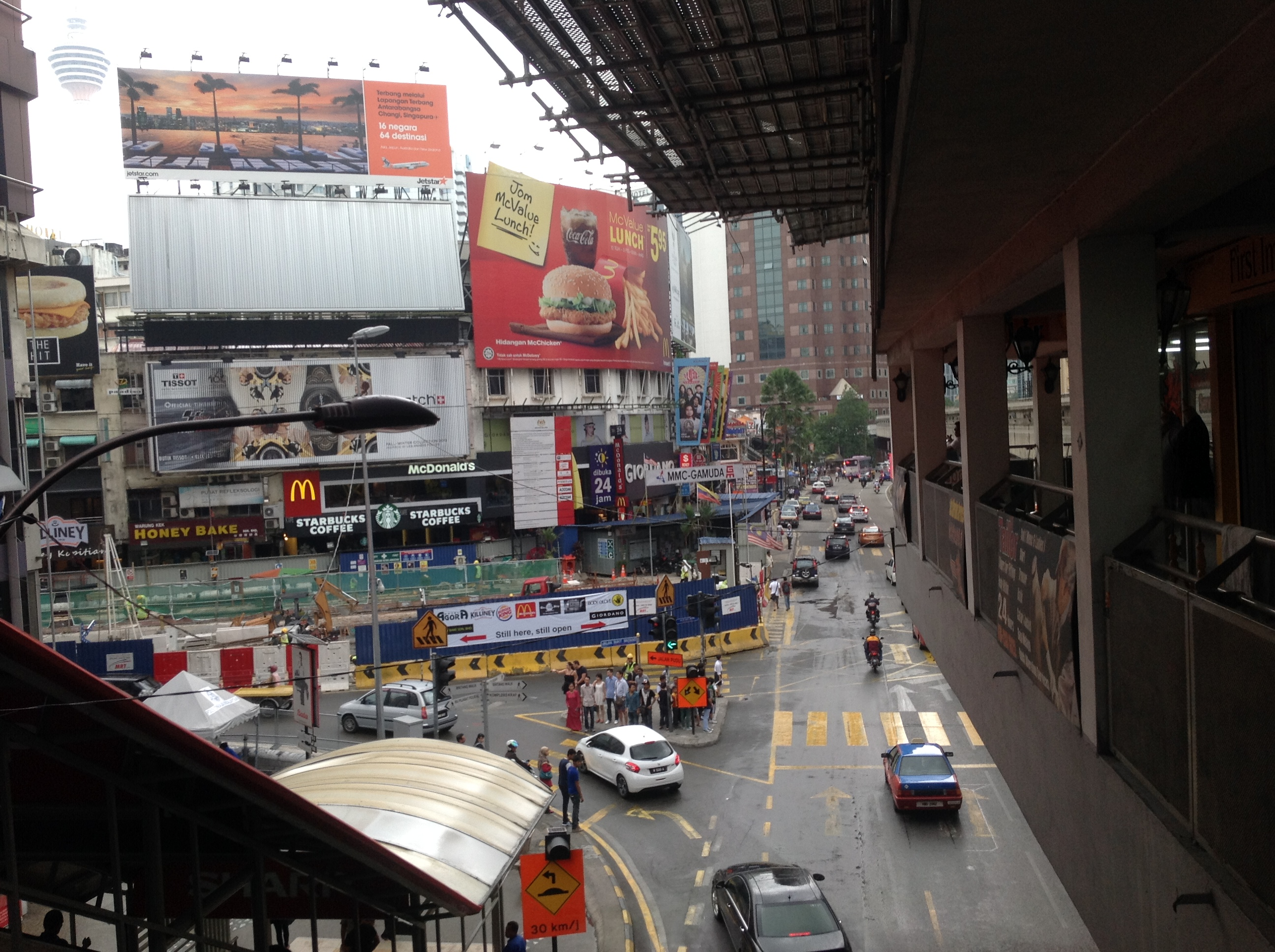 Bukit Bintang as view from Bukit Bintang Station